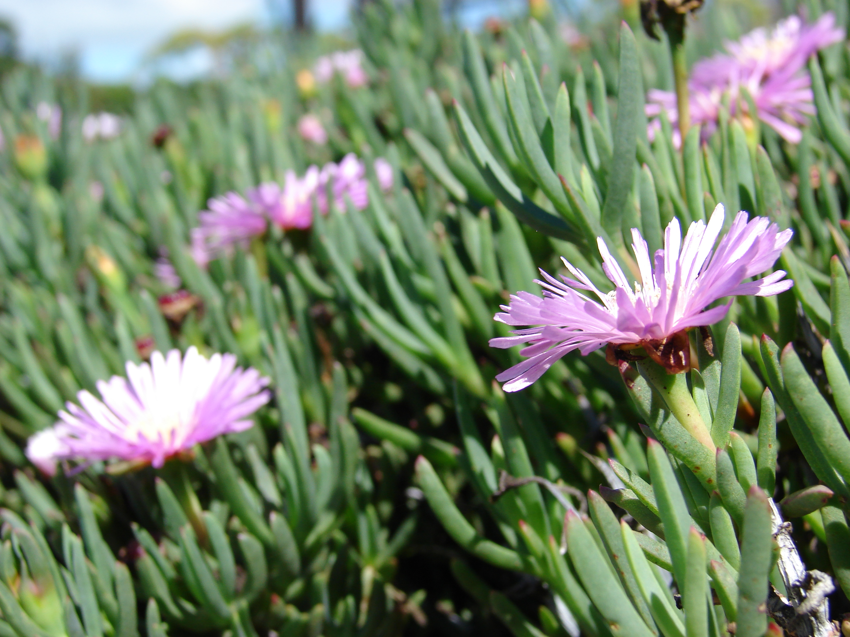 Lampranthus roseus (flowers). Location: Maui, Kula Sandalwood Cafe Kula